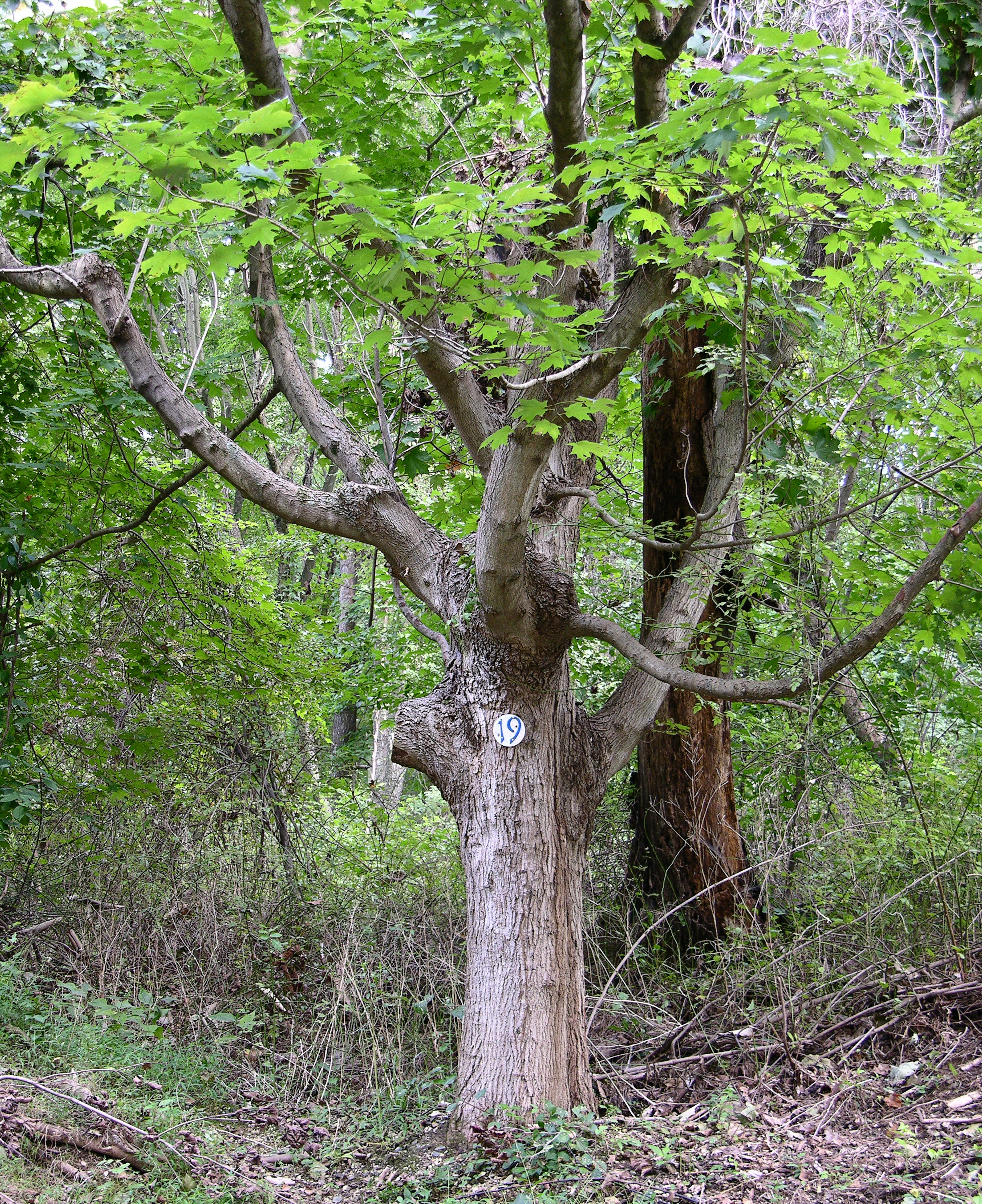 A photograph of the Sugar Maple (Acer saccharum). Species identification performed by the Pennsylvania Department of Conservation and Natural Resources. Photo taken at the Ridley Creek State Park.